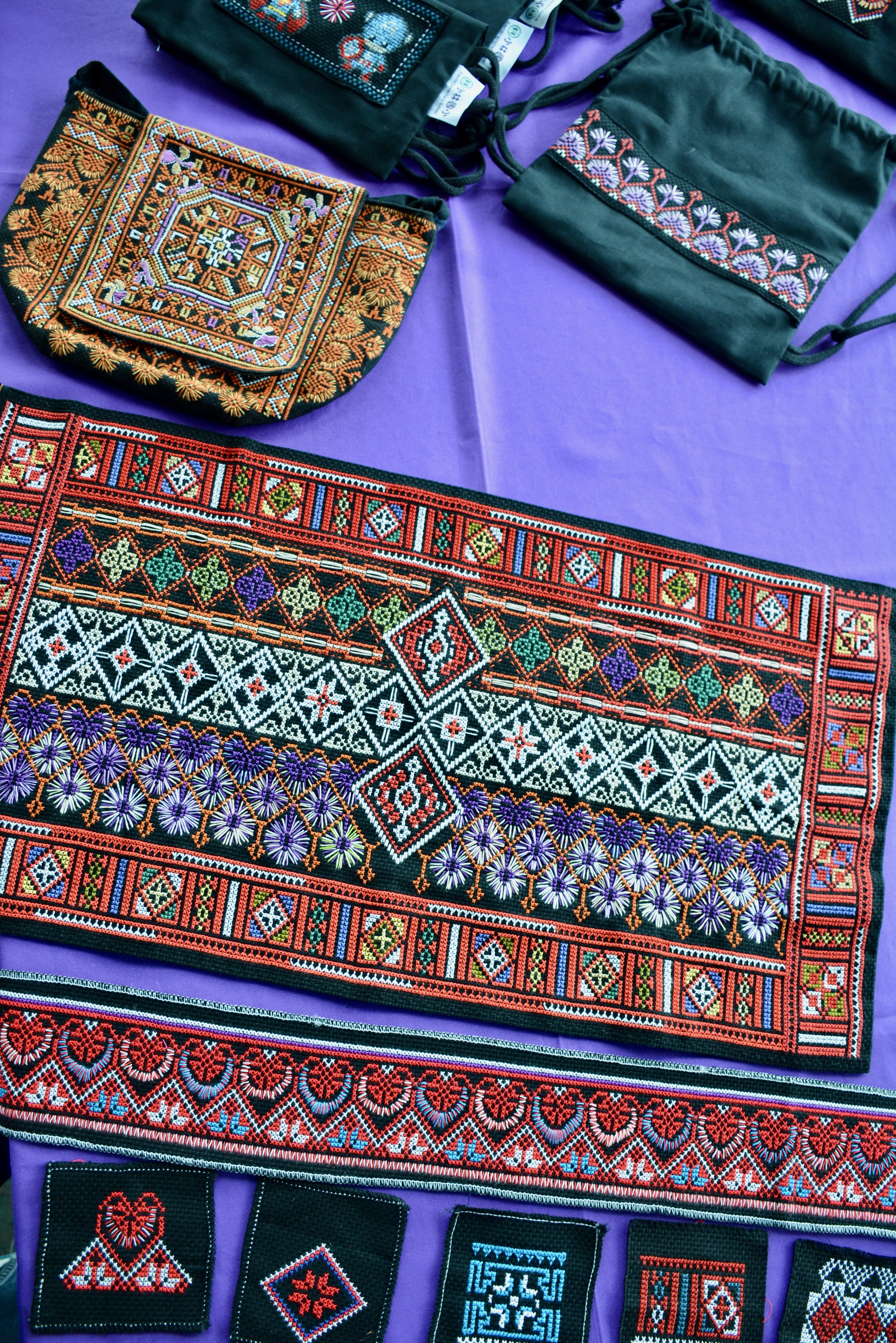 The traditional cross-stitched patterns of indigenous Taivoan people from Xiaolin, Kaohsiung. 中文（台灣）: 小林村大武壠族的傳統十字繡圖紋。